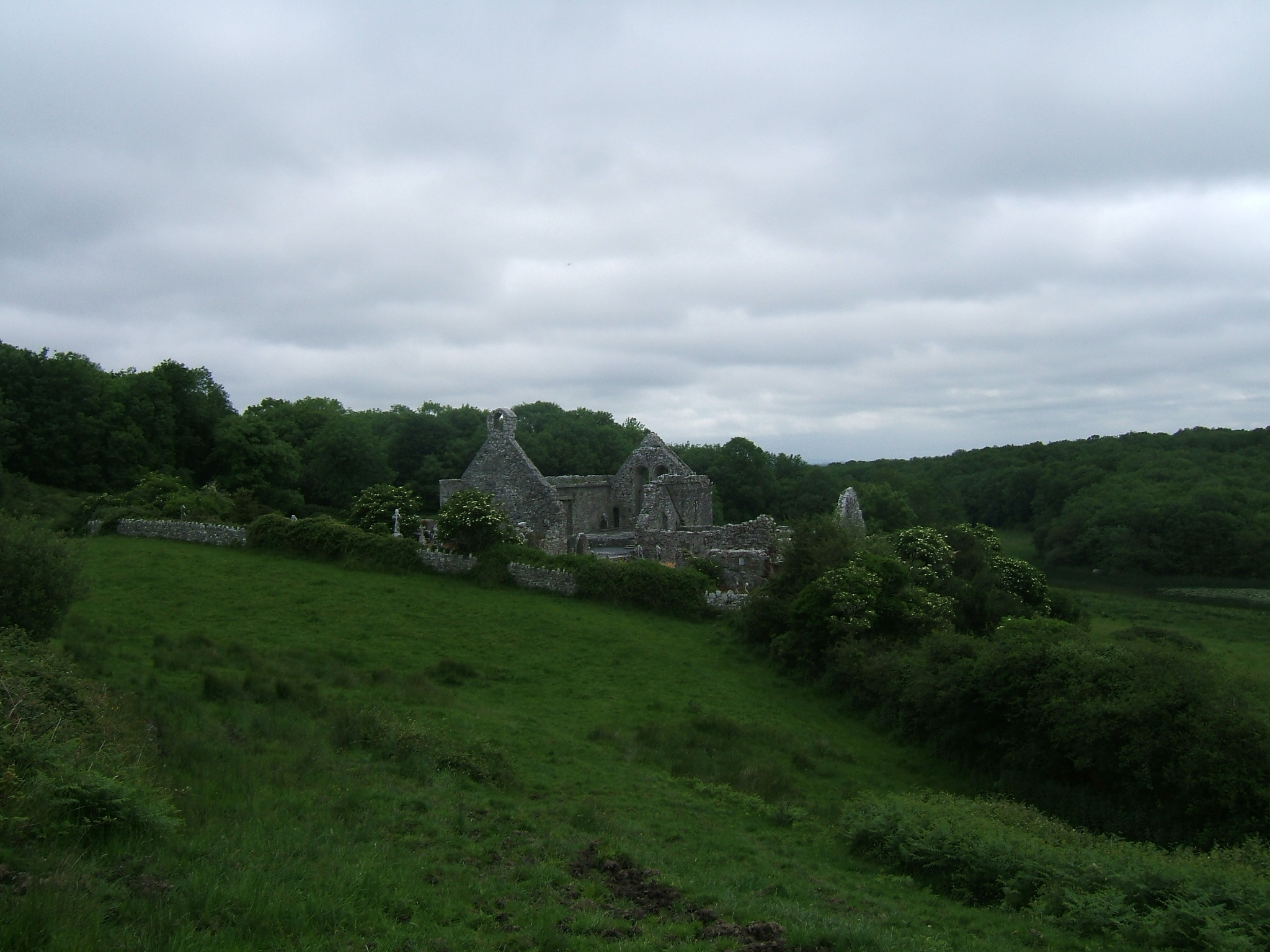 Photo by Brad Newcomer, June 2005